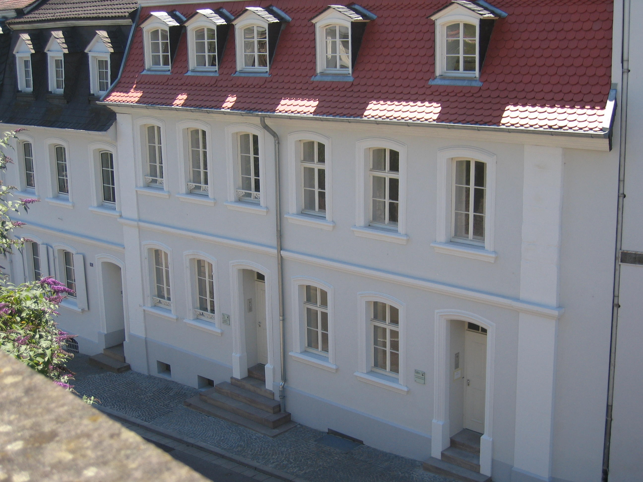 Picture shows the German-American Institute Saarbrücken from the outside of the Talstrasse.